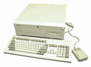 Photograph of Commodore Amiga 4000 desktop model with original keyboard and mouse